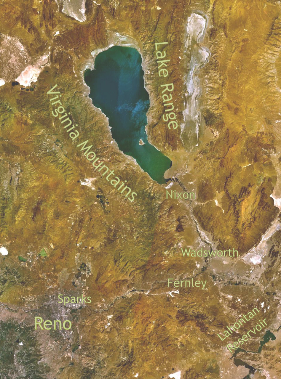 Satellite picture of Pyramid Lake and Washoe County, in western Nevada. The Truckee River feeds the endorheic lake — flowing east to Reno from the Sierra, then northwards towards the lake basin.